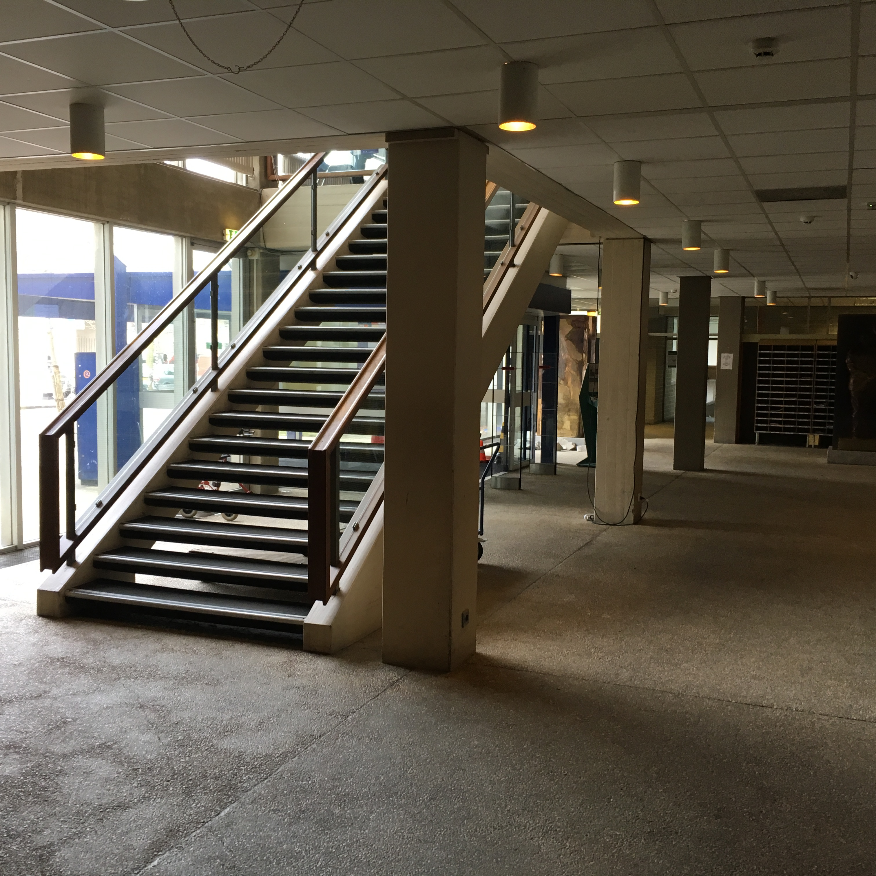 The building of the Royal Conservatory of The Hague, at Juliana van Stolberglaan 1 in The Hague